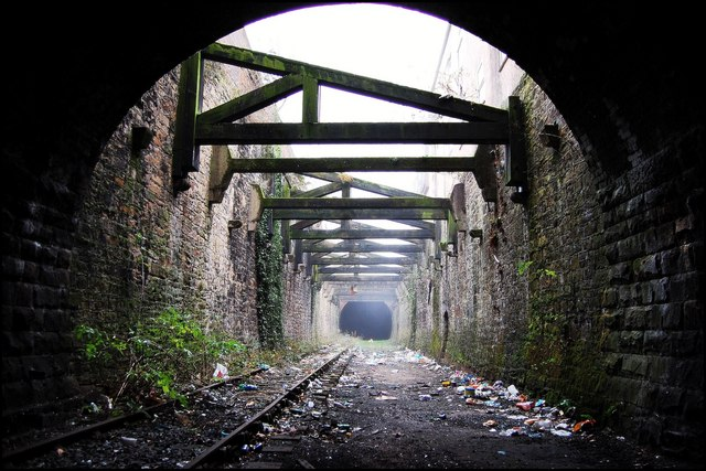 Deepdale disused railway cutting This 70 yard long open cutting section is pictured looking towards Deepdale number two tunnel from inside the Miley tunnel. For many more pictures and information about the Deepdale tunnels see here